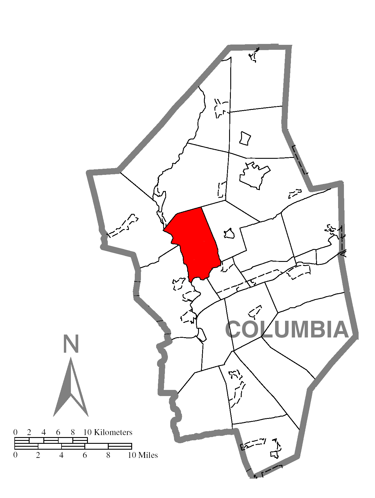 A map of Columbia County showing Mount Pleasant Township, Pennsylvania (alternate) highlighted on the map.